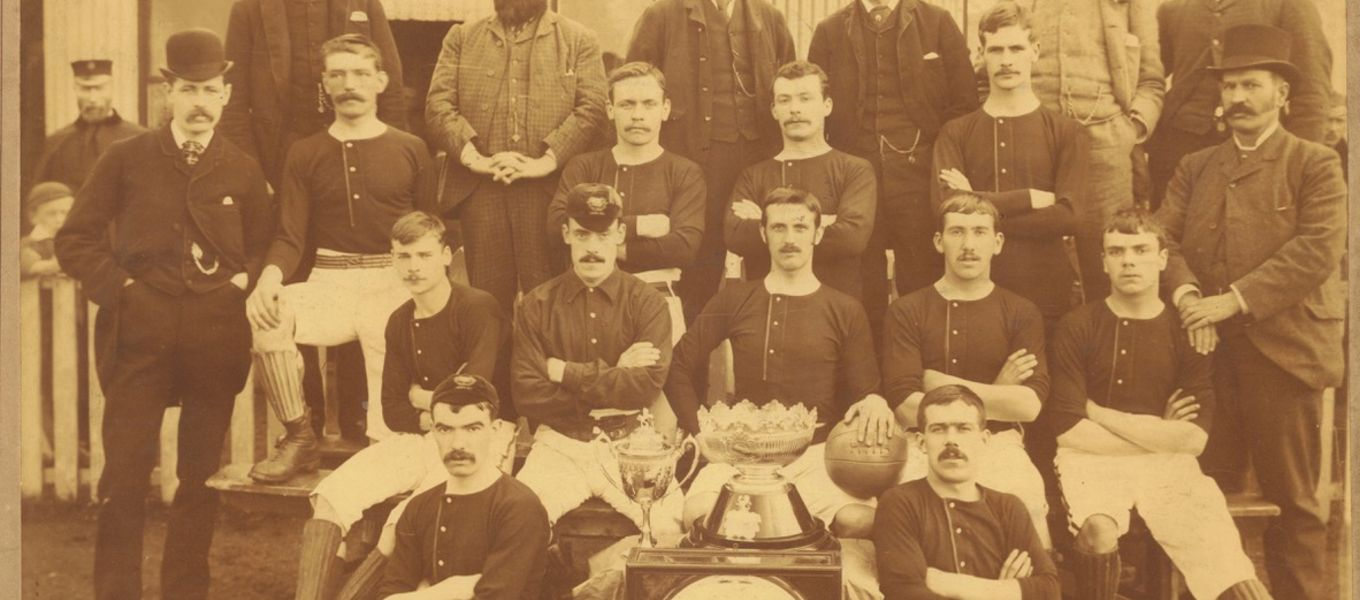 Uncertain year between 1889 and 1897